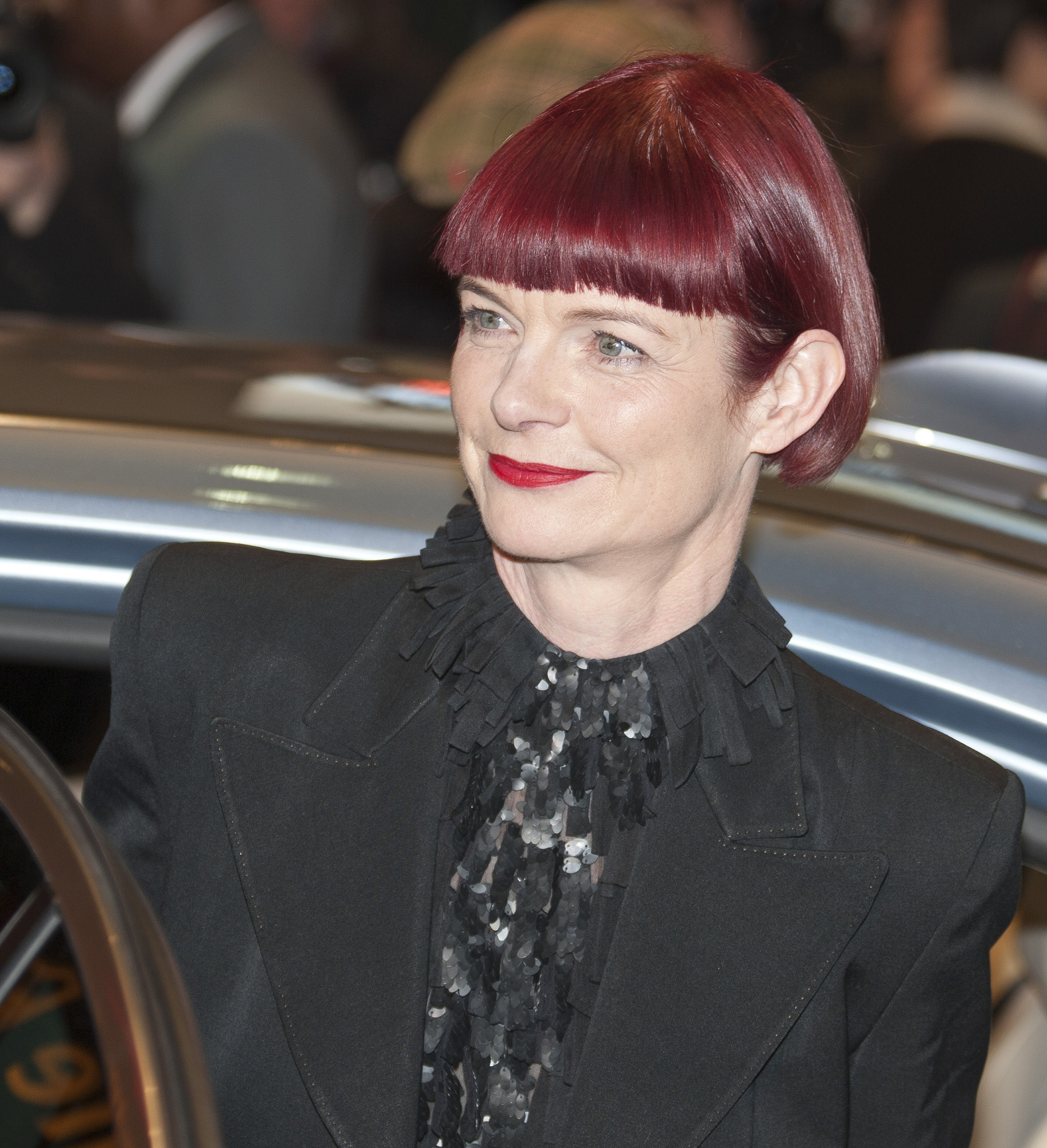 Sandy Powell, British triple Oscar winnig costume designer, member of the international jury of the Berlinale 2011, arriving at the premiere of True Grit